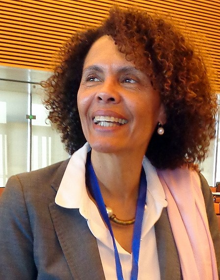 Finance Minister of Cape Verde Cristina Duarte in Addis Ababa, Ethiopia.